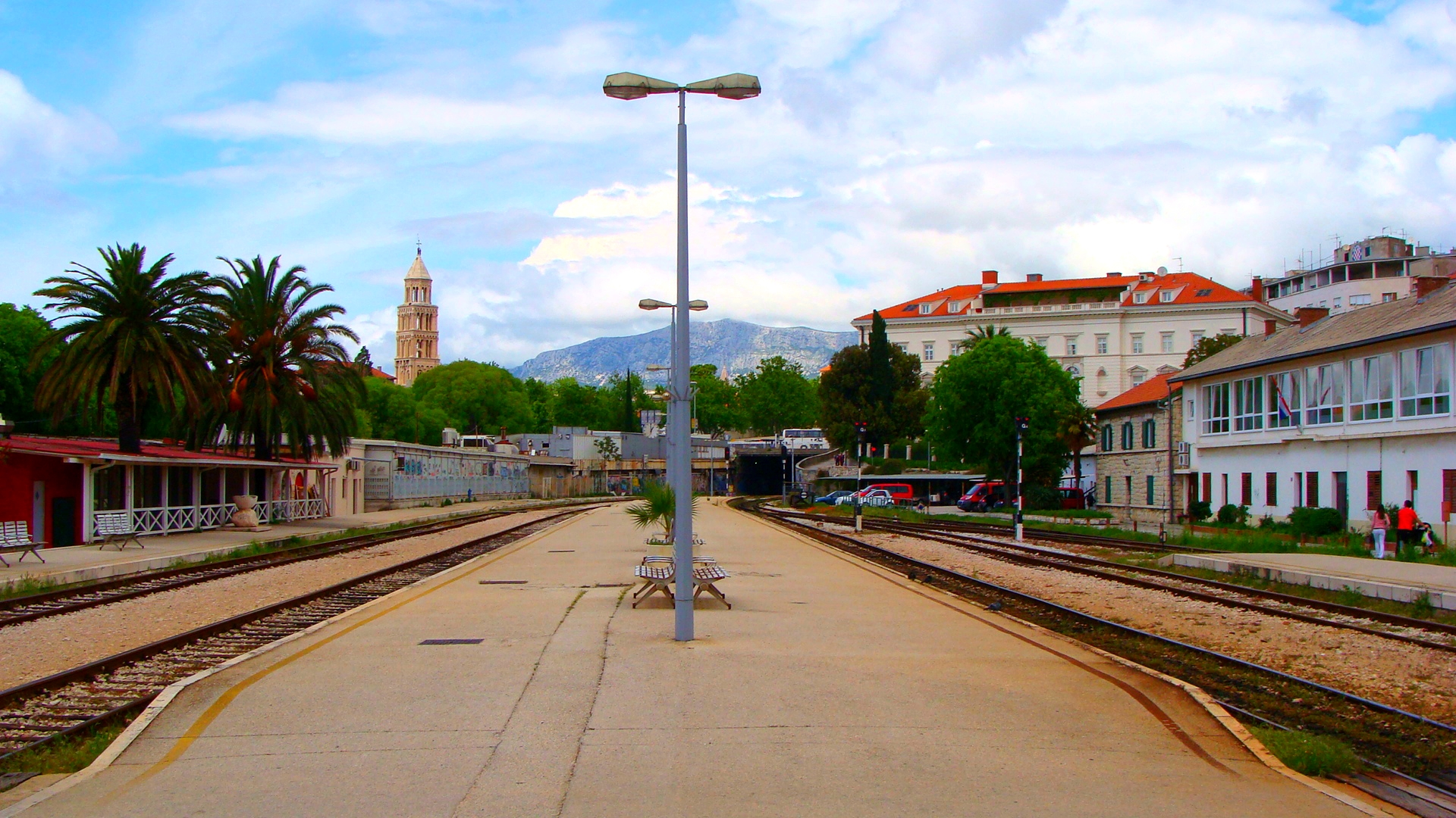 The main train station of Split in Springtime 2014.